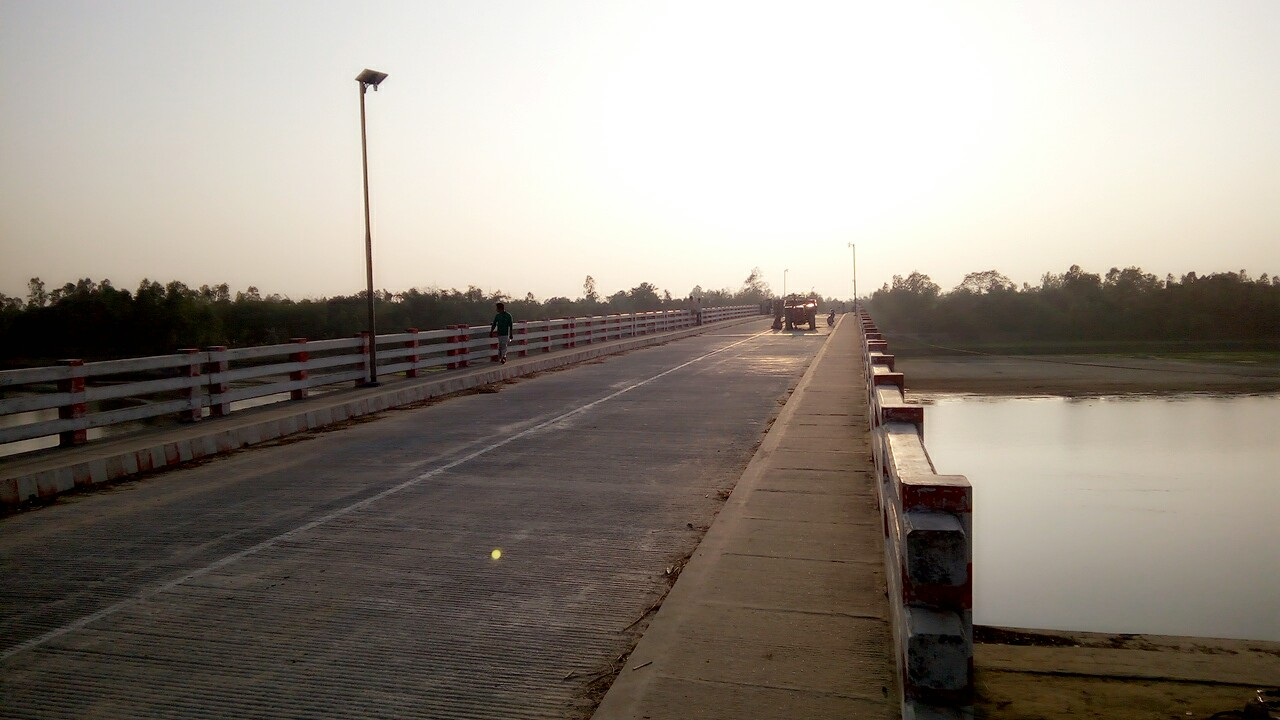 Wahed mia bridge in Nowabgong. Located in Kachdoh. Captured by ruhan